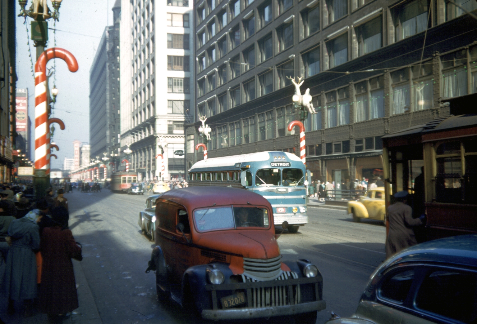 State Street in Chicago decorated for Christmas, 1949.